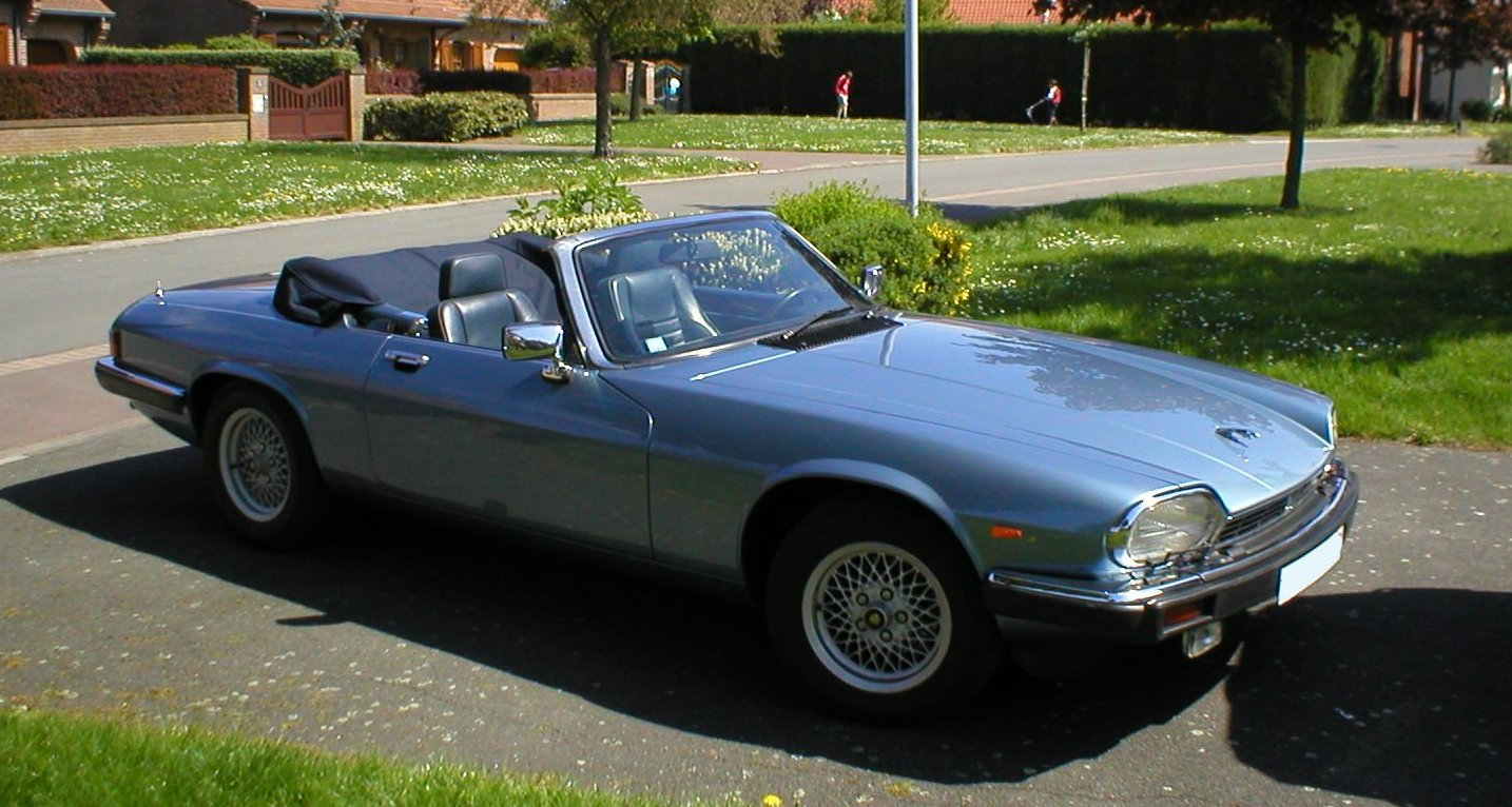 Jaguar XJ-S convertible